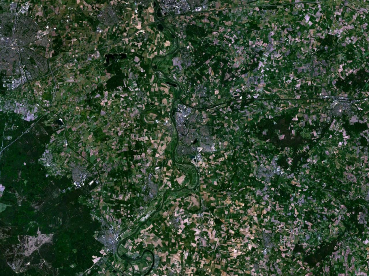 Zutphen, The Netherlands. Satellite view.